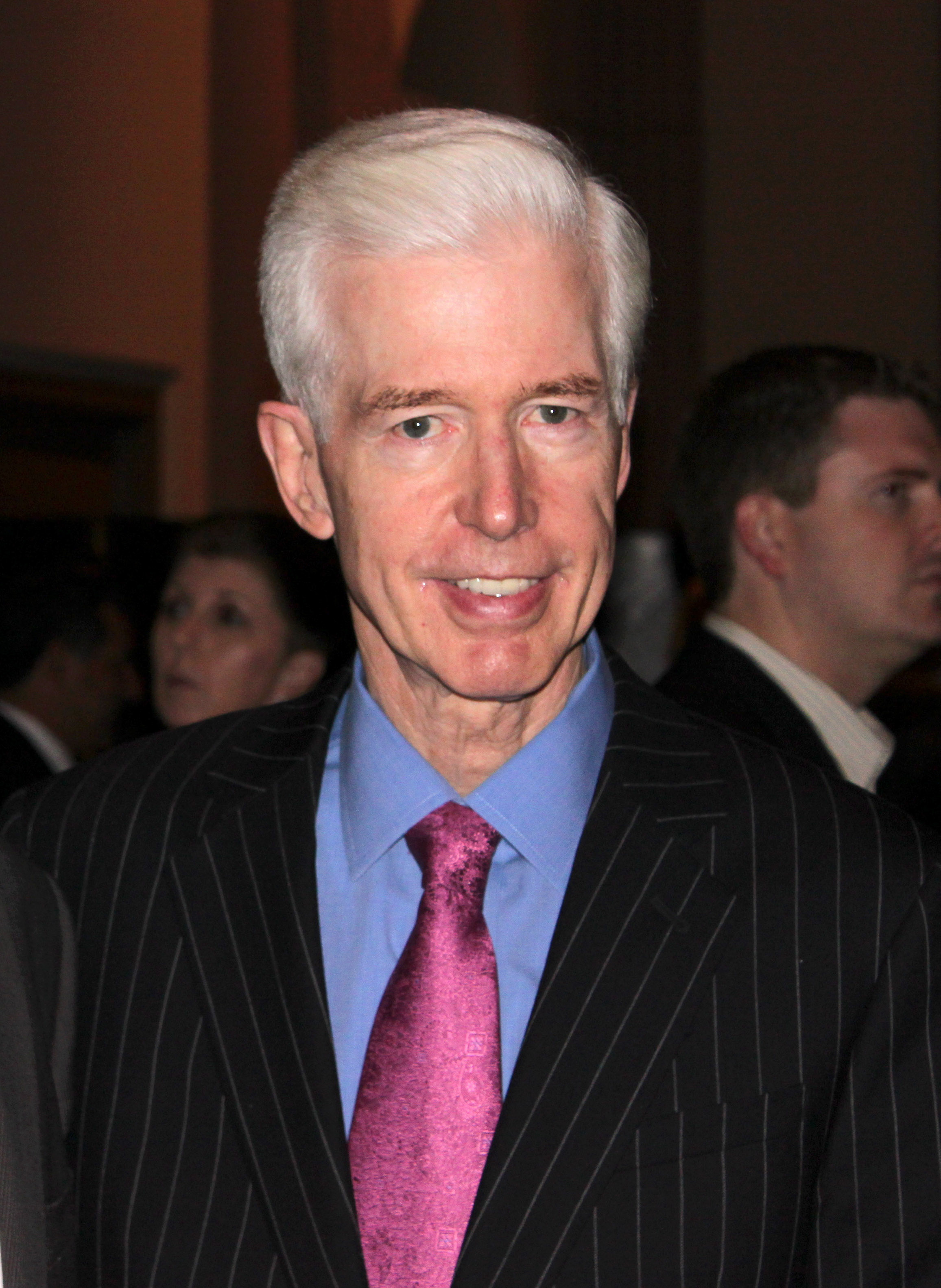 Gray Davis, 37th Governor of California